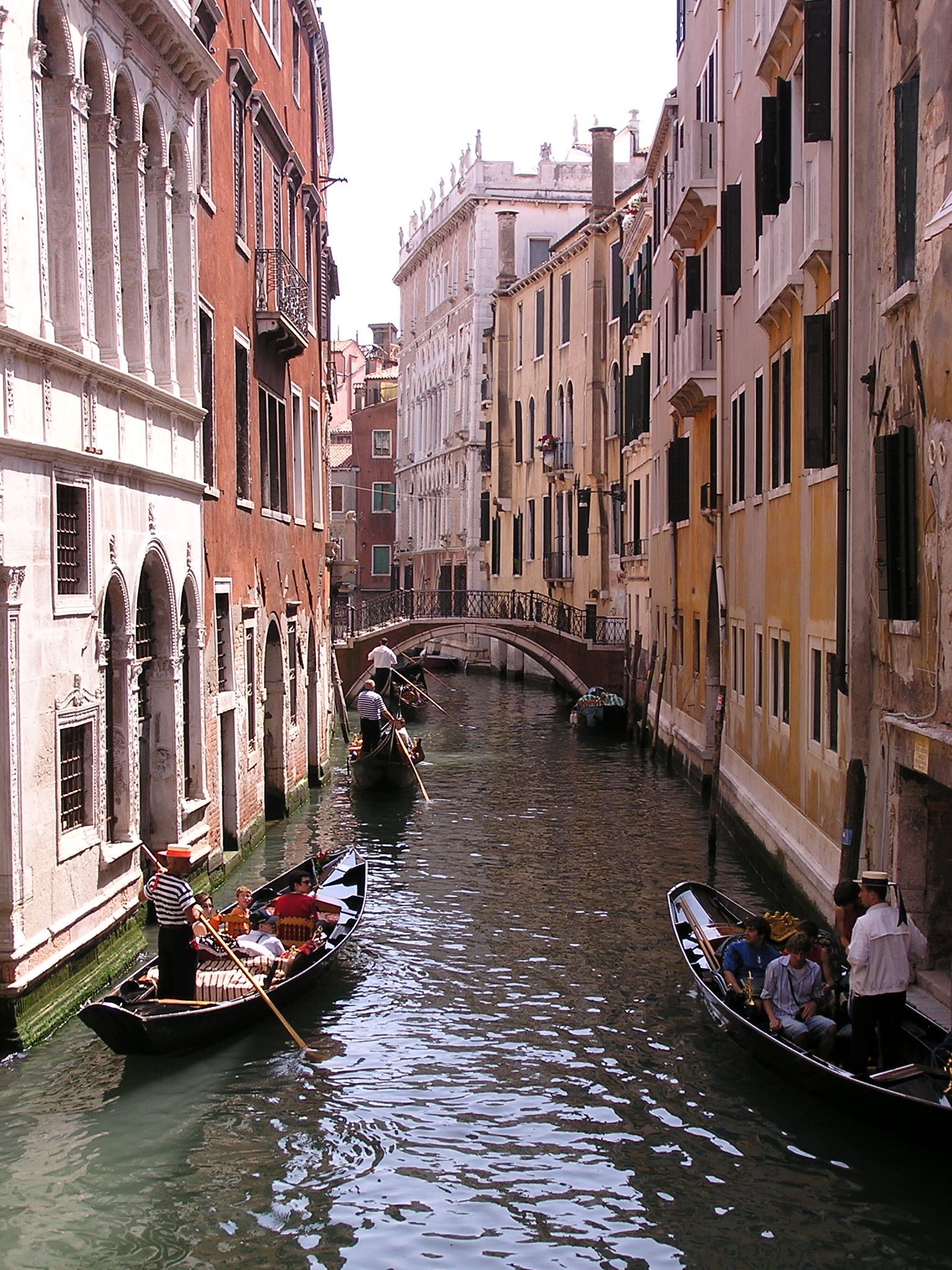 gondolas in one of the canals of Venice